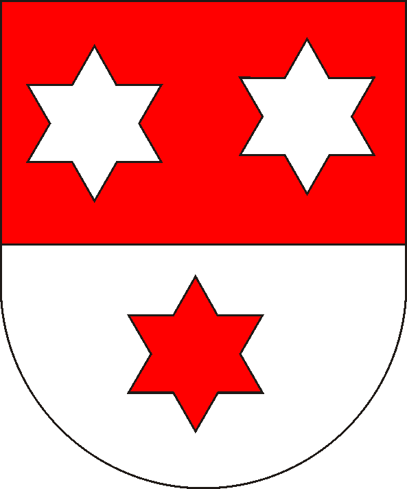 coat of arms